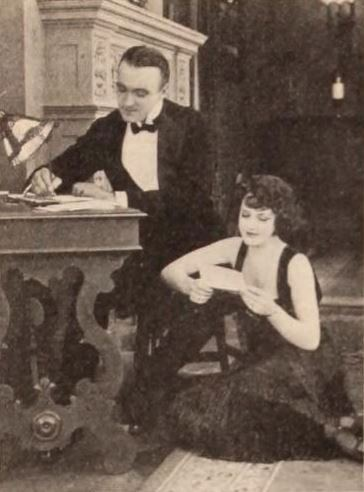 Still from the American drama film Blackmail (1920) with an unidentified actor and Viola Dana, on page 98 of the November 13, 1920 Exhibitors Herald.